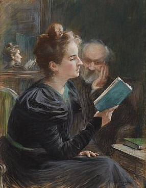 Madeleine Carpentier - portrait